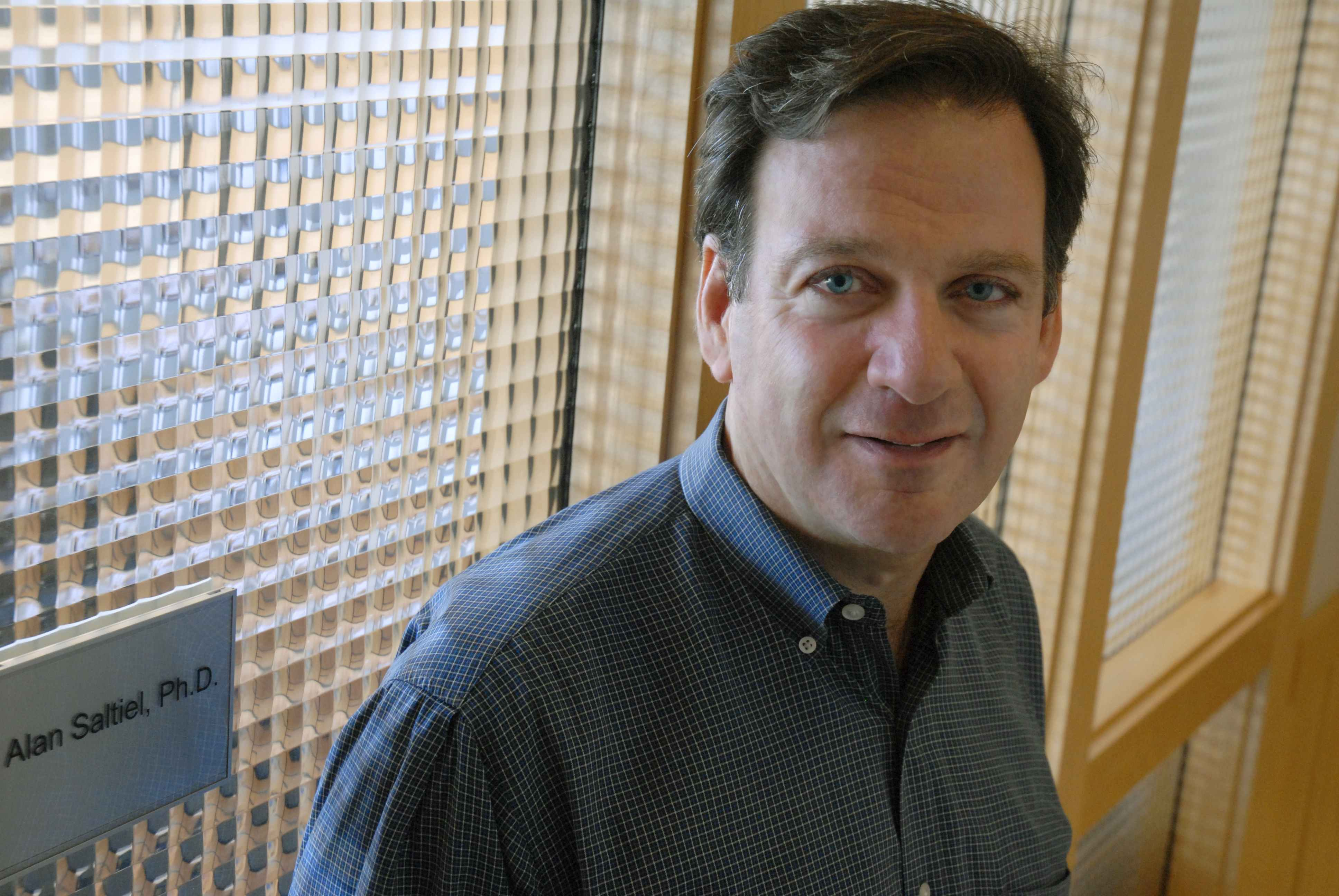 Alan R. Saltiel in front of his office.